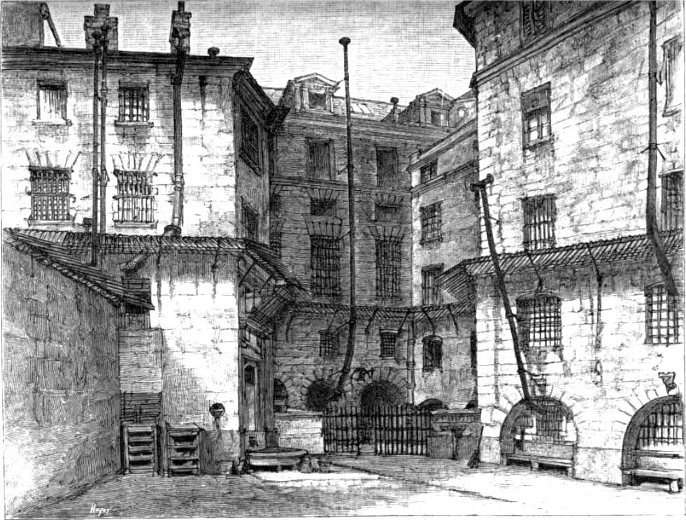 The Women's Yard in the Conciergerie Prison in Paris, France.